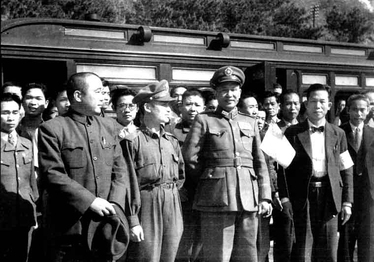 After the oppression by the Chinese Nationalist Army in the 228 Incident, Chung-xi Bai, then the Minister of Defense of Chinese Nationalist Government, went to Taiwan for a visit.